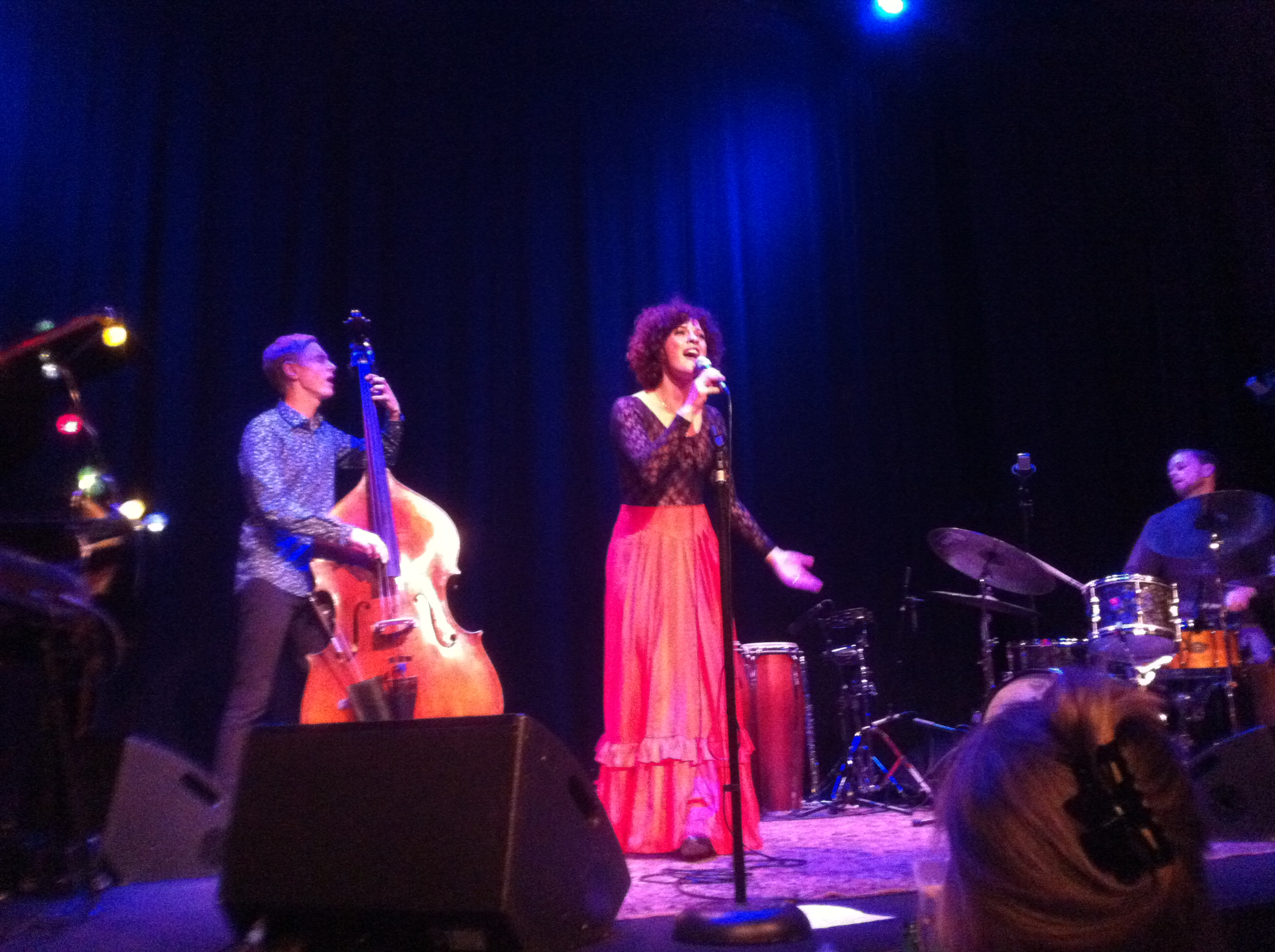 Helena Josefsson feat. Kontur - at Victoria Theatre in Malmö, Sweden on 17.10.2015. Release concert album "Happiness".